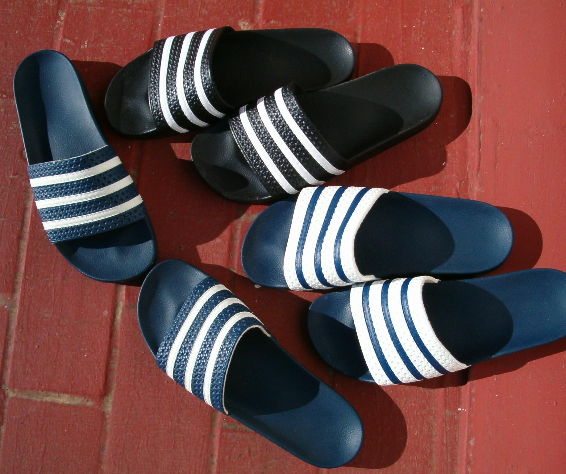 Several adilette sandals models. March 2004. Spain.